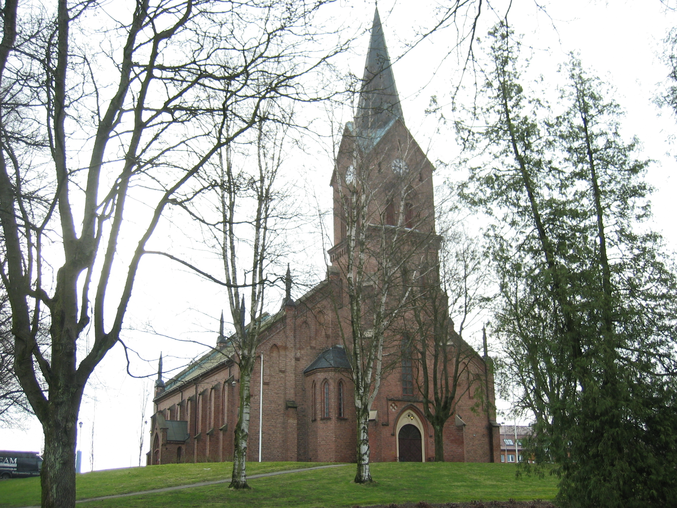 Sarpsborg Church, Østfold, Norway